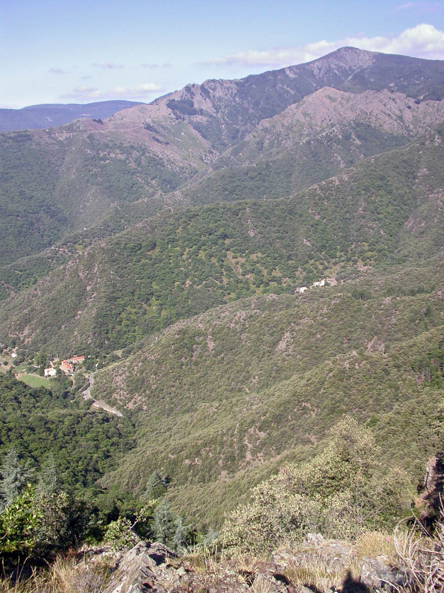 View of east face of Mont Aigoual (Massif Central, France). Photograph Robin Lacassin, 2006.